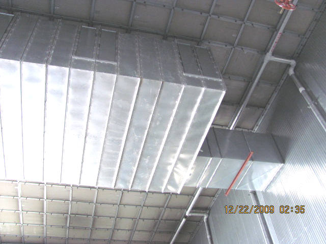 National Research Council of Canada, Institute for Research in Construction, National Fire Laboratory in Mississippi Mills, Ontario smoke exhaust duct.